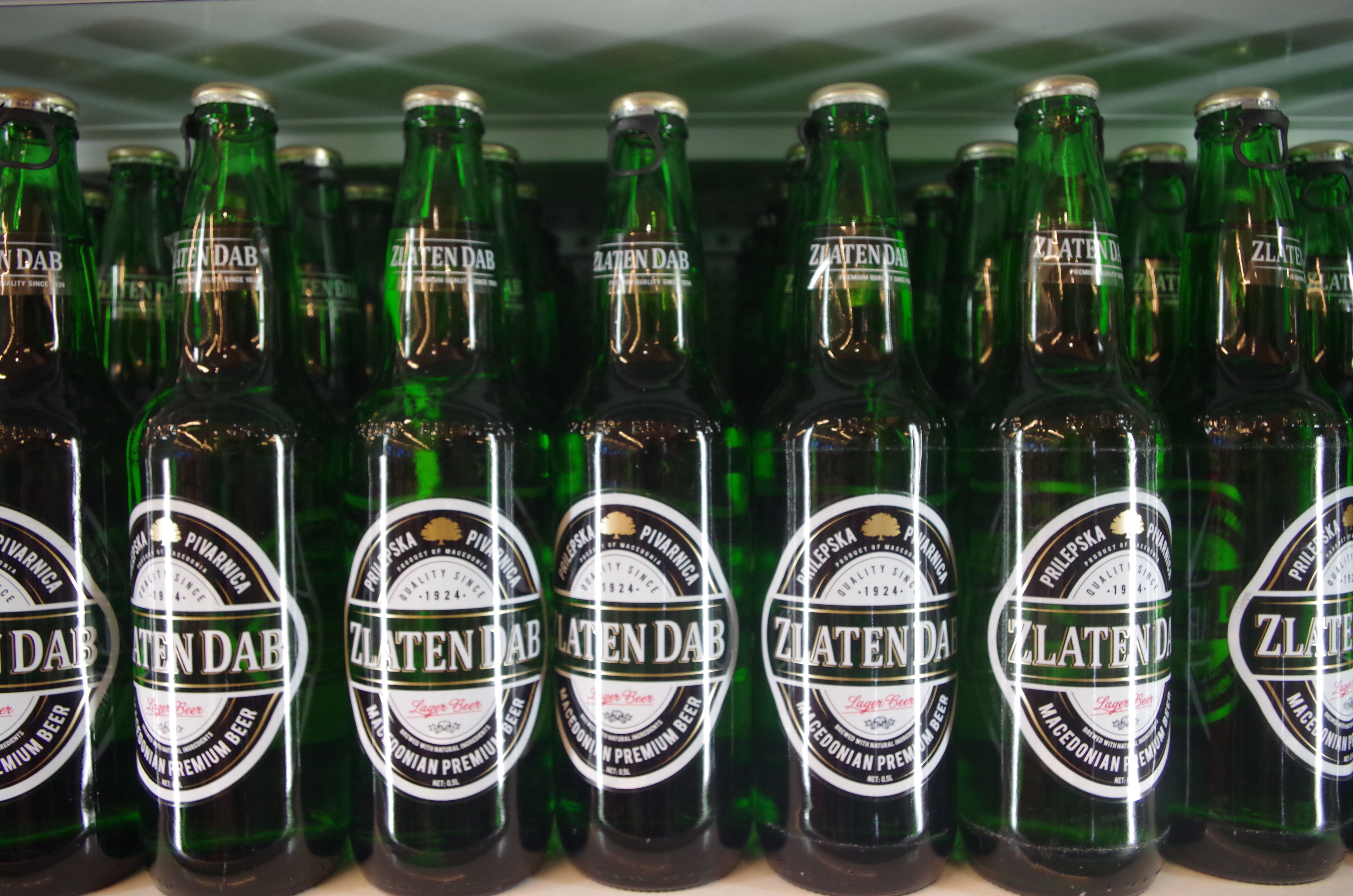 Bottles of "Zlaten Dab" Macedonian draft beer